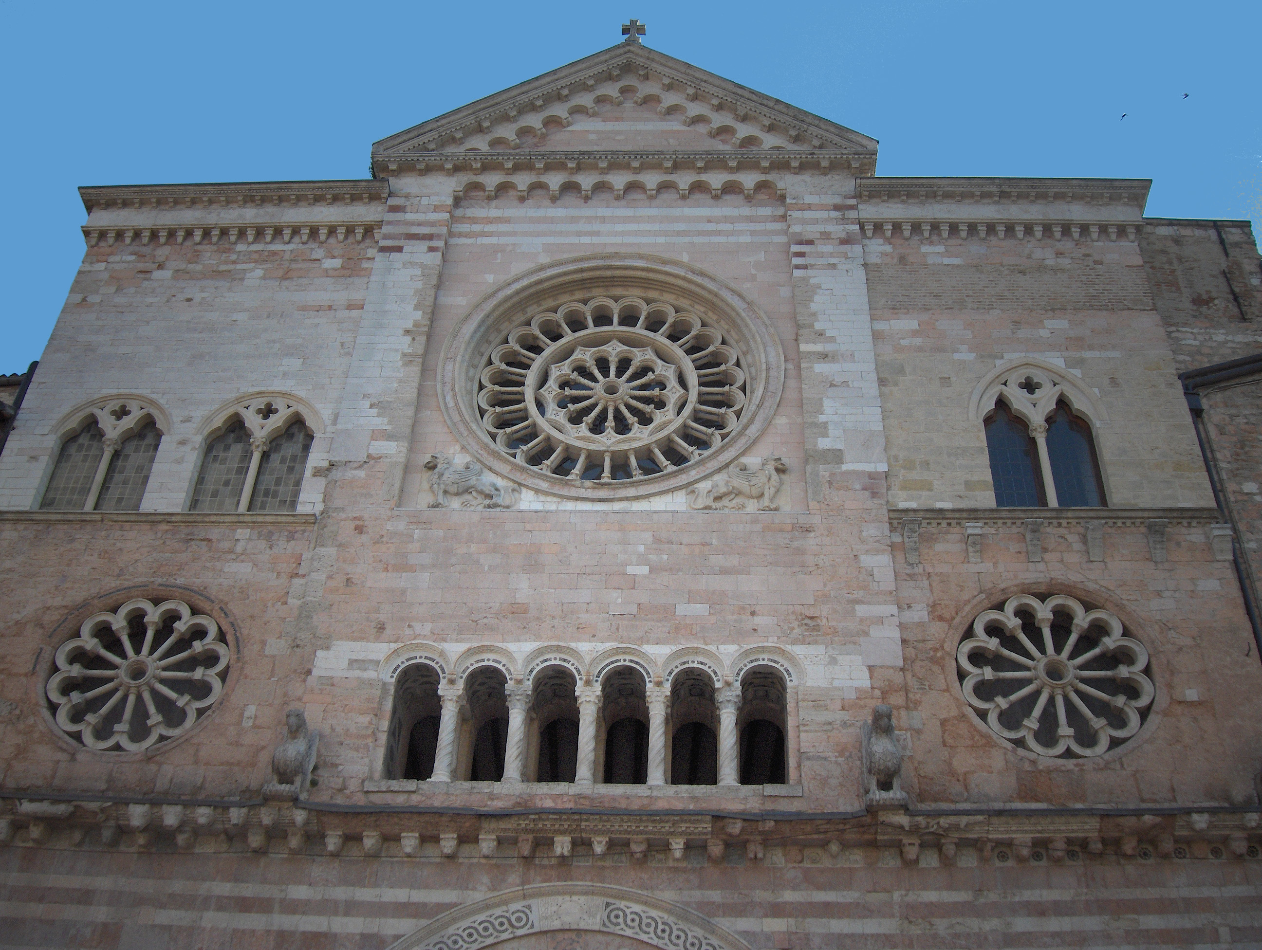 Smaller façade of the Cathedral of San Feliciano on the Piazza della Reppublica, Foligno, Italy